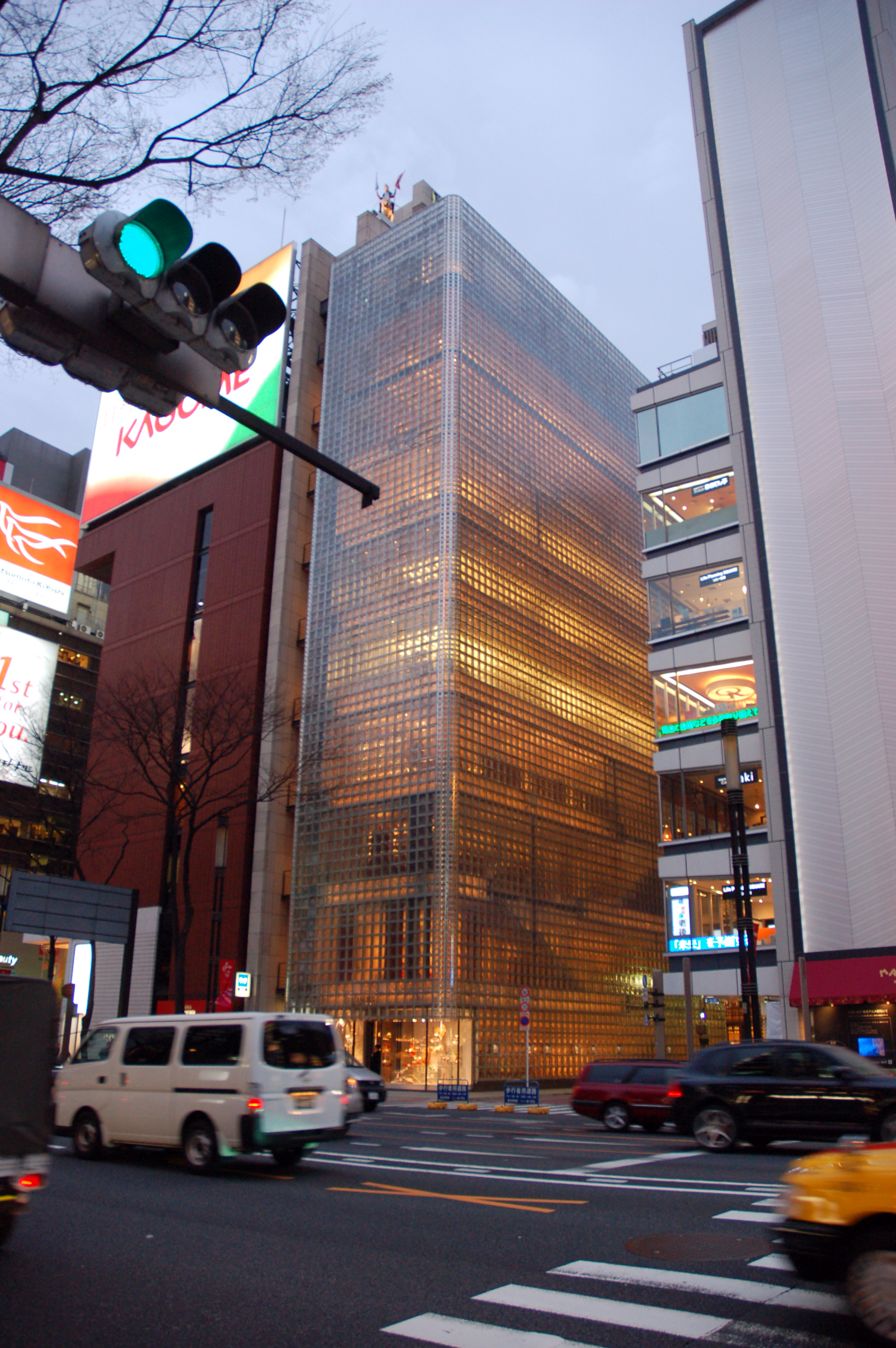 Maison Hermès building, Tokyo by Renzo Piano